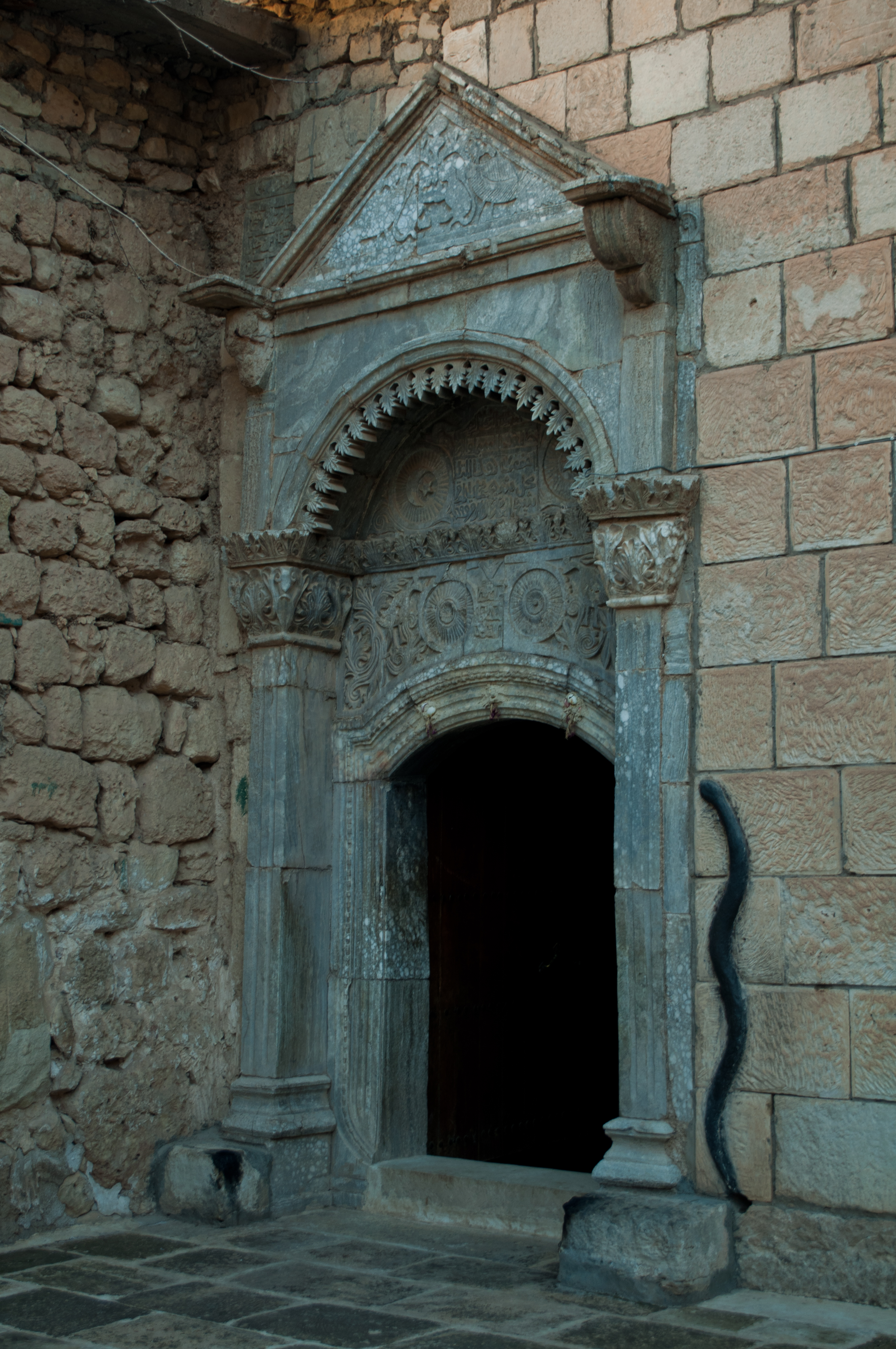 The entrance to the tomb of Sheikh Adi ibn Musafir at Lalish, the holiest city of the Yazidi faith. The serpent, depicted to the right of the doorway, is one of the most revered Yazidi icons.